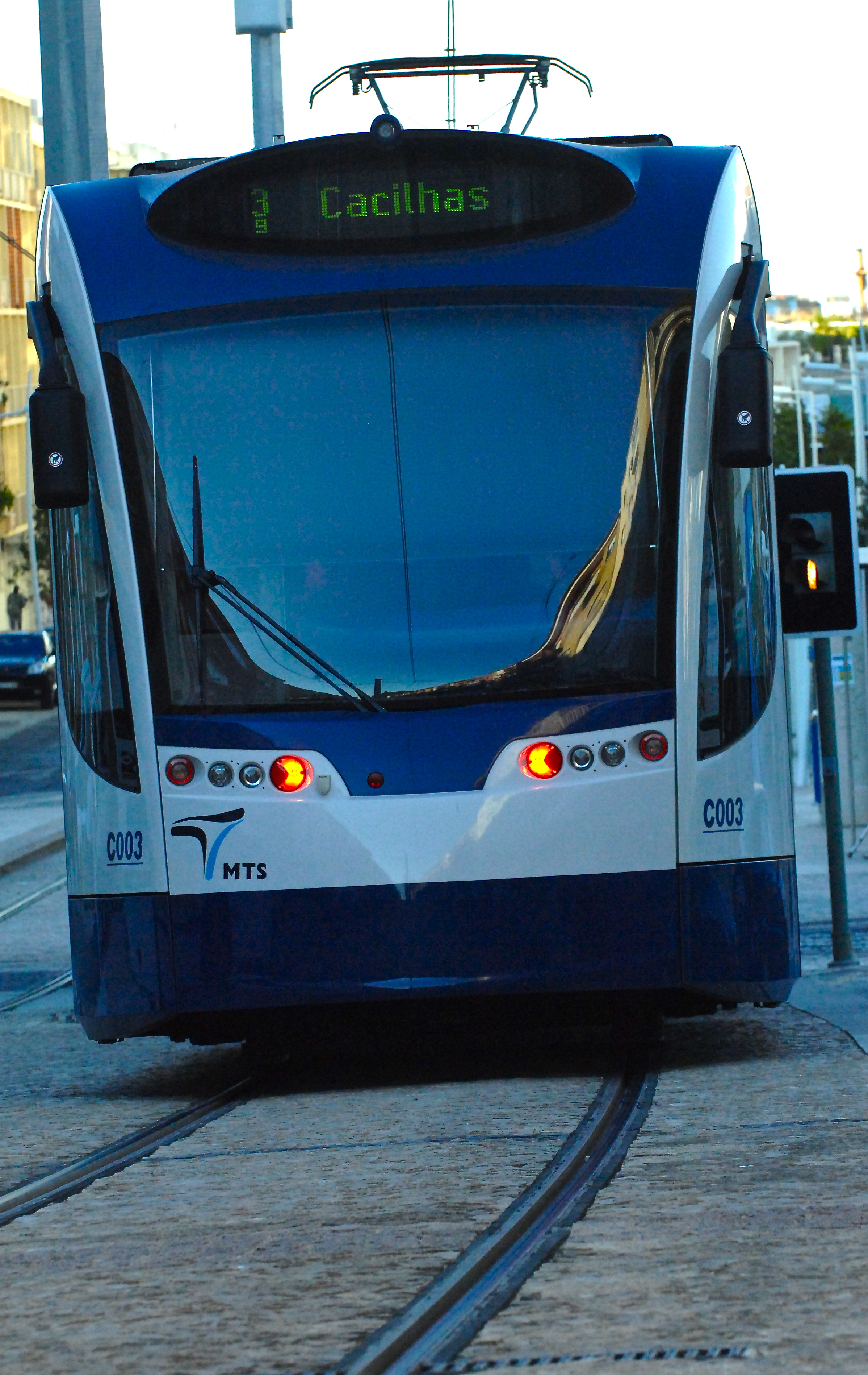 Siemens Combino Plus tram (#C003) in Almada, Portugal. Built 2007, Metro Transportes do Sul (MTS) operator.